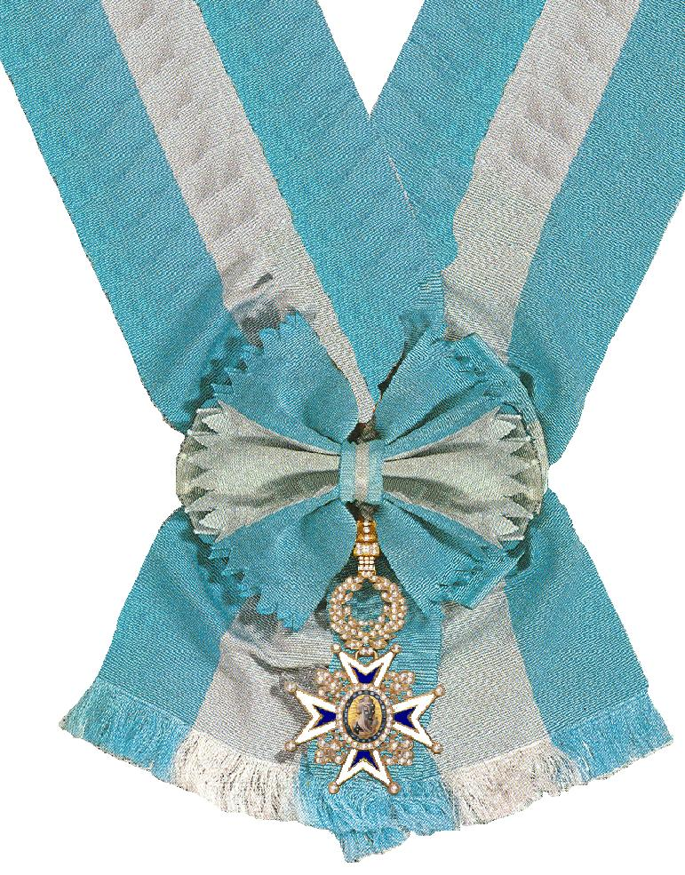 Knight's Ribbon